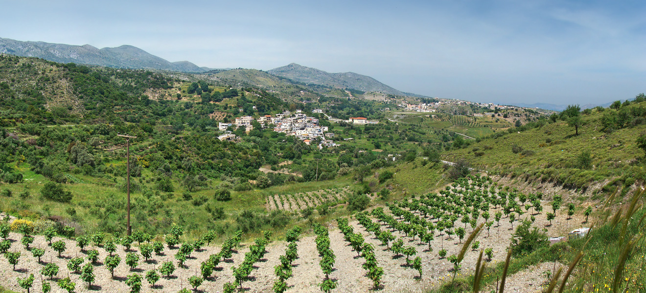 Around Zoniana, Crete, Greece. Panoramic view toward the neighbouring villages of Krana and Livadia.